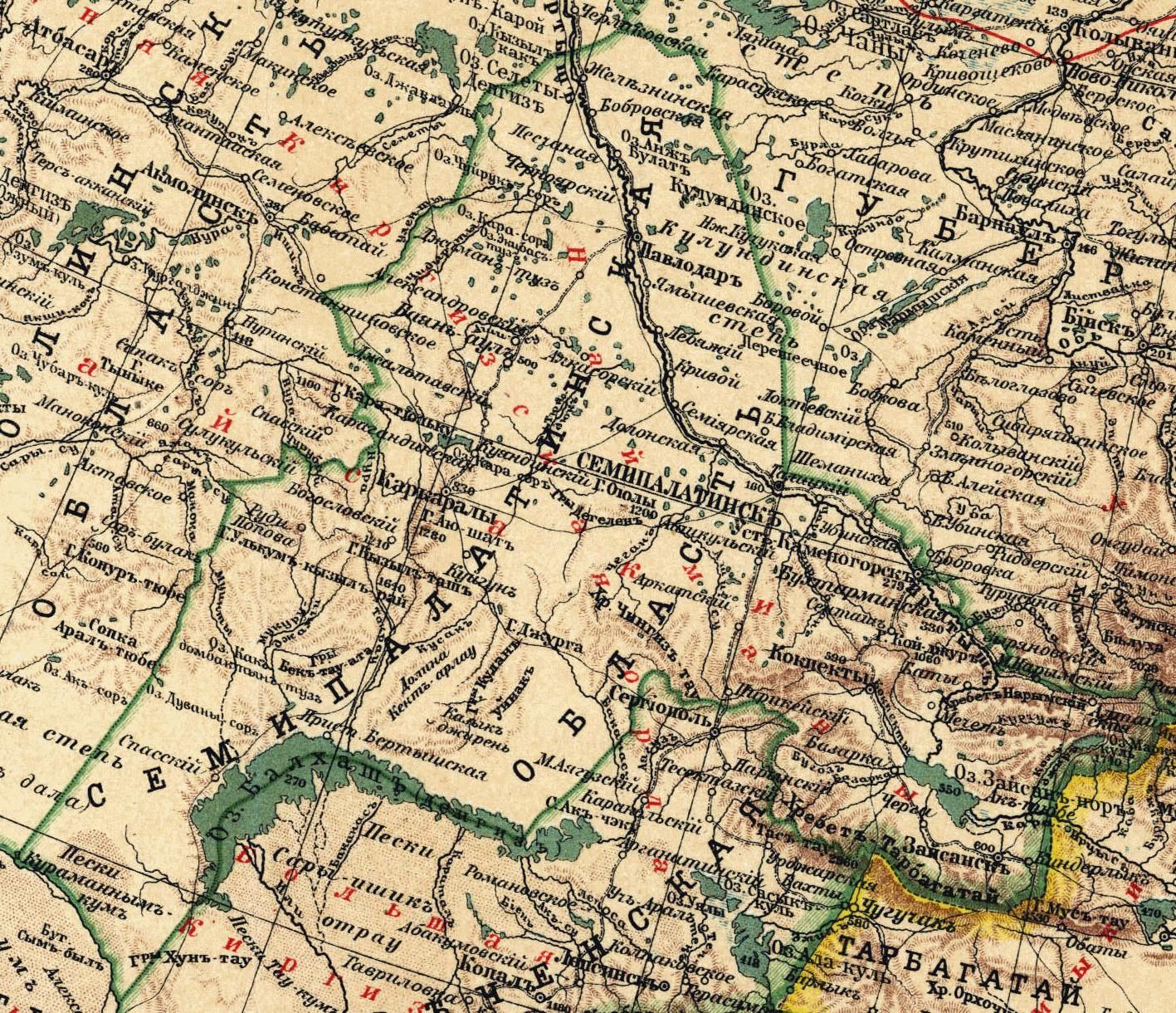 Map of Semipalatinsk Oblast (Russian Empire)